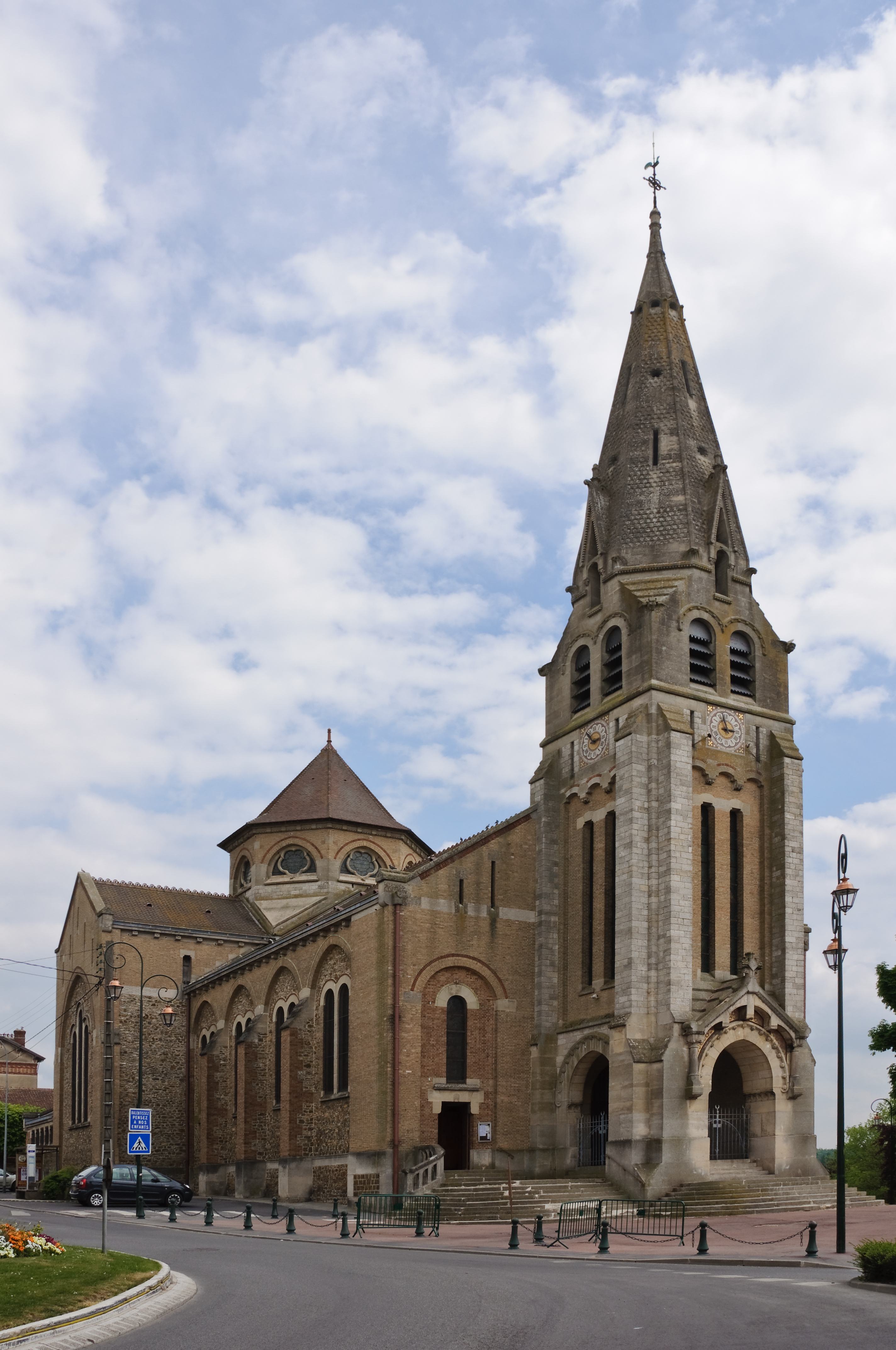 Saint-Denis-Sainte-Foy church in Coulommiers, Seine-et-Marne, France.